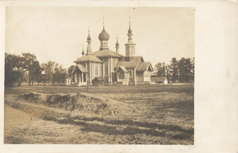 Turkowice monastery. A postcard from Aleksander Sosna's collection.